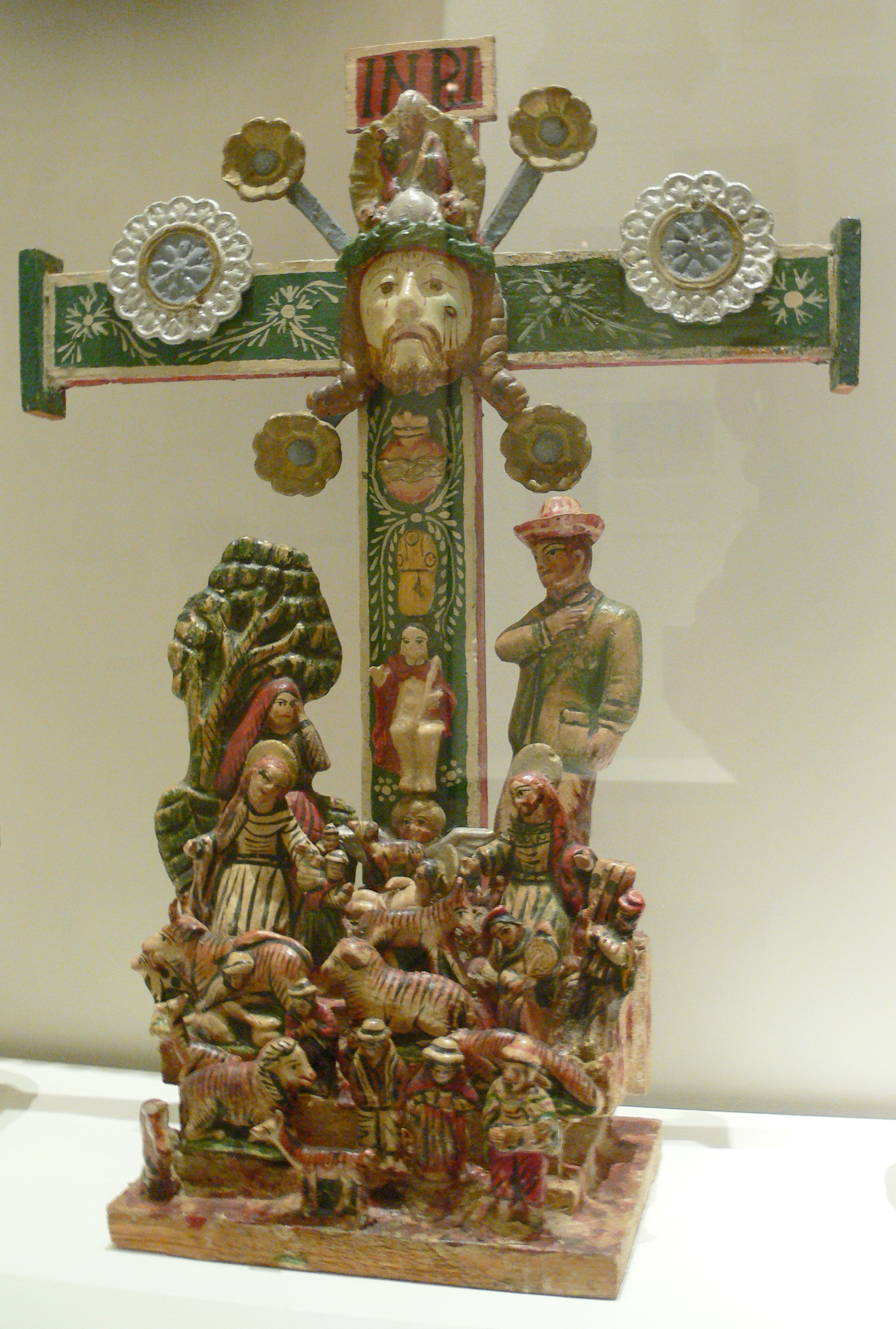 Tropenmuseum Amsterdam Crucifix with a Christmas scene, Peru, c. 1960